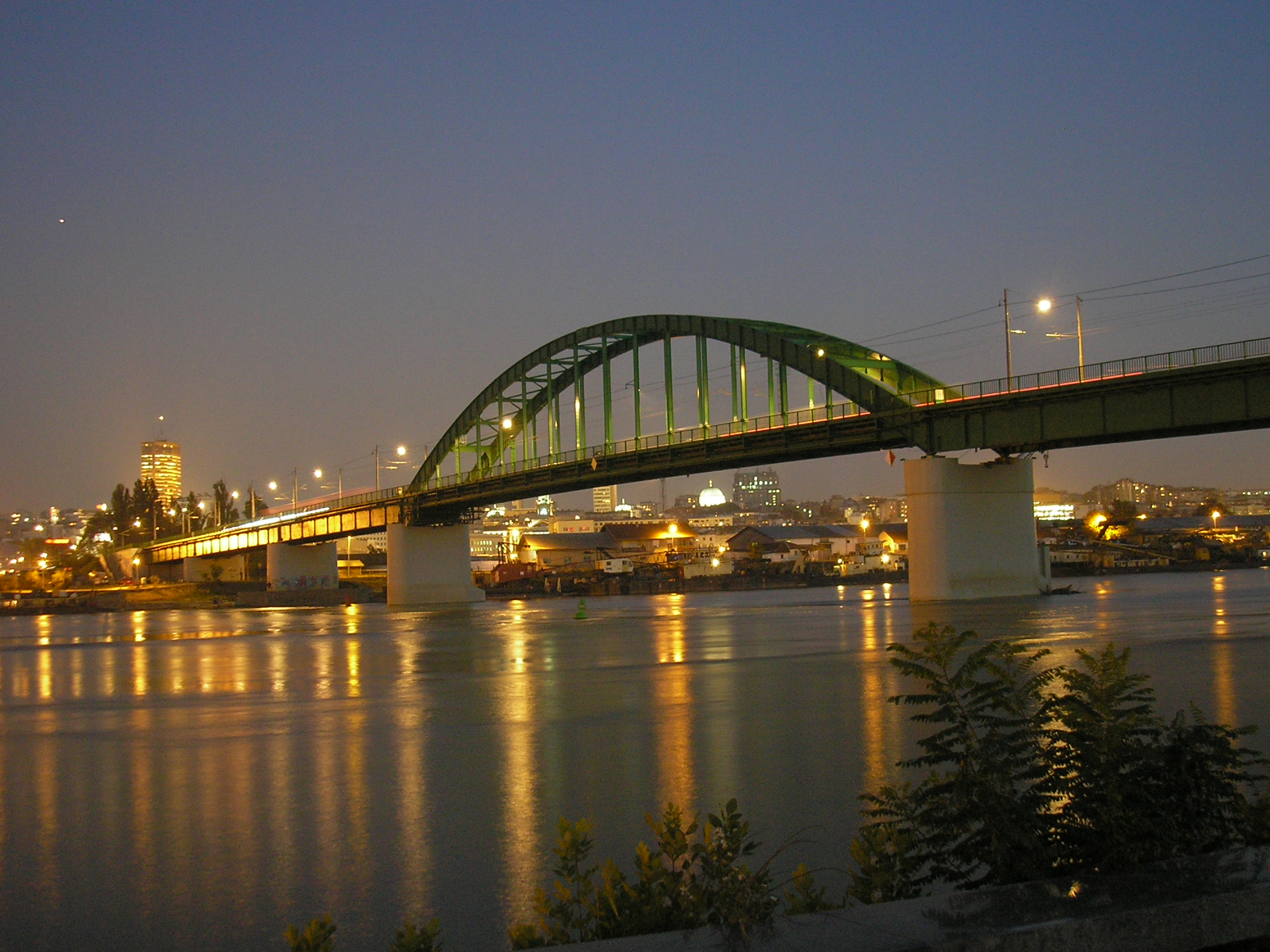 The old Sava bridge in evening. Beograd, Serbia.